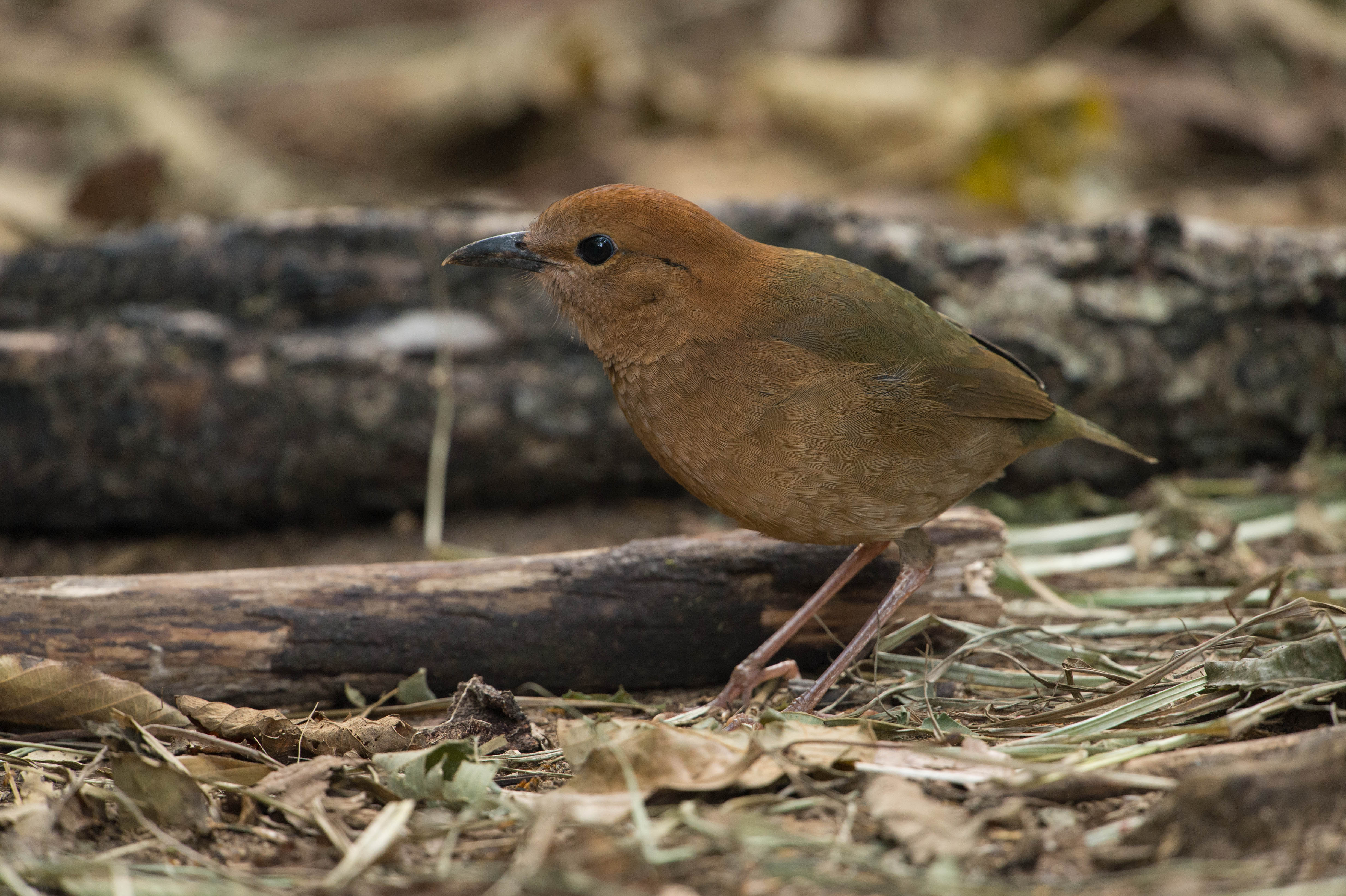 Rusty-naped Pitta (Pitta oatesi) at Mai Fang, Doi Lang, Chiang Mai Thailand. Finally the star bird puts in an appearance after many hours in the hide. This image has not been cropped or sharpened